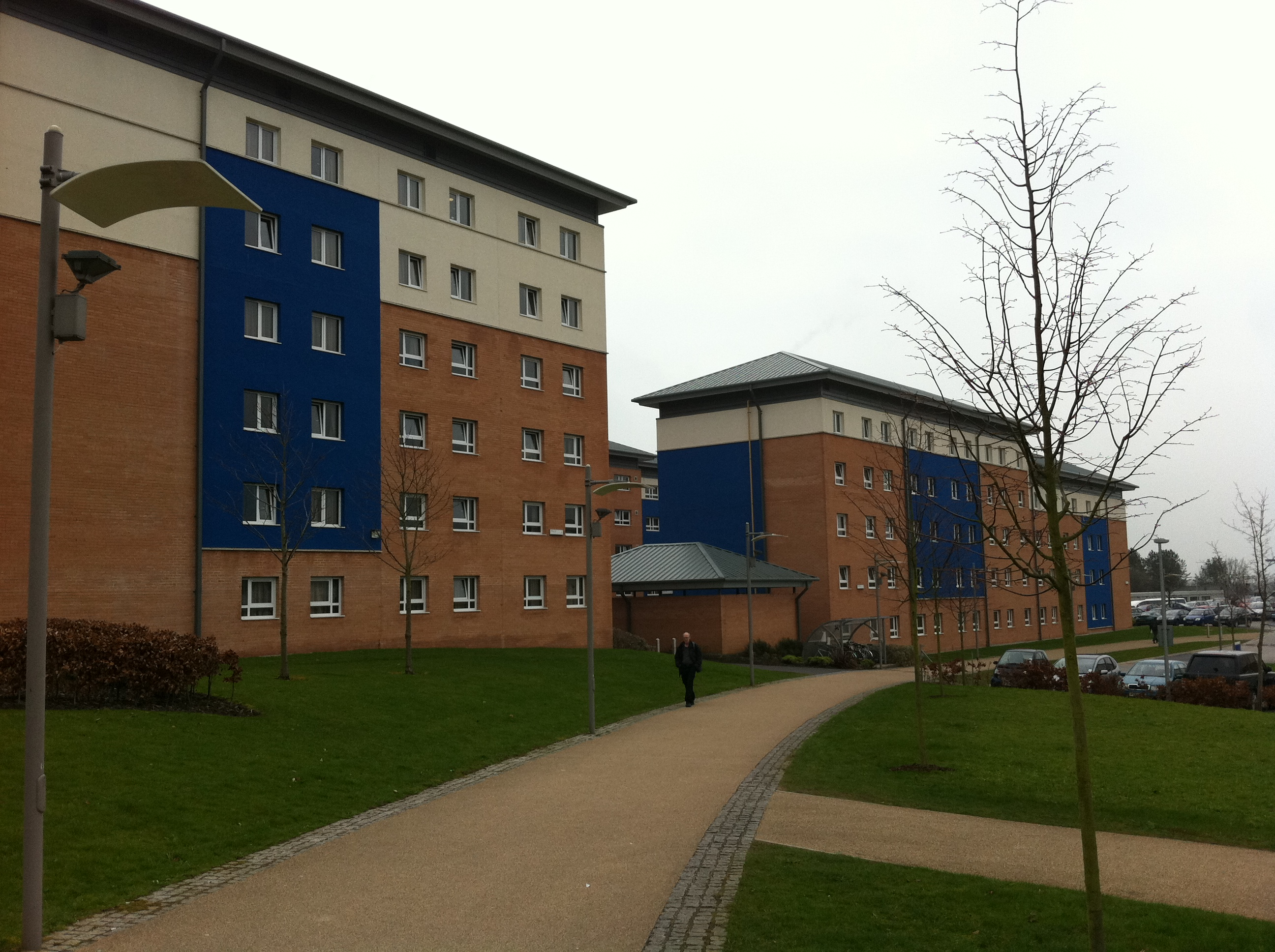 Fylde College Superior Accommodation